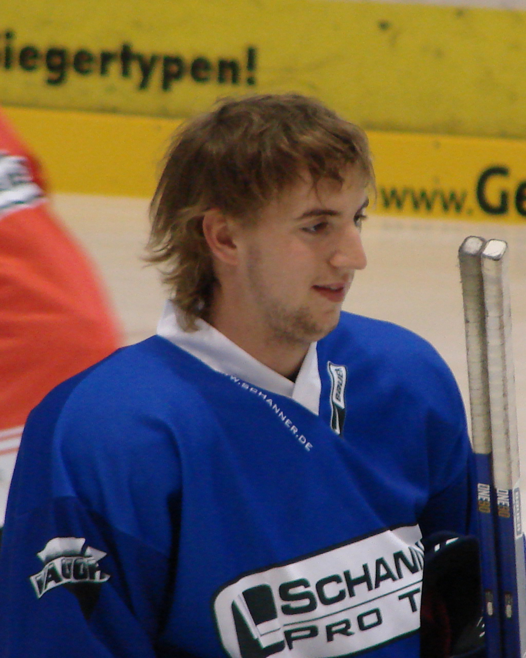 Alexander Heinrich